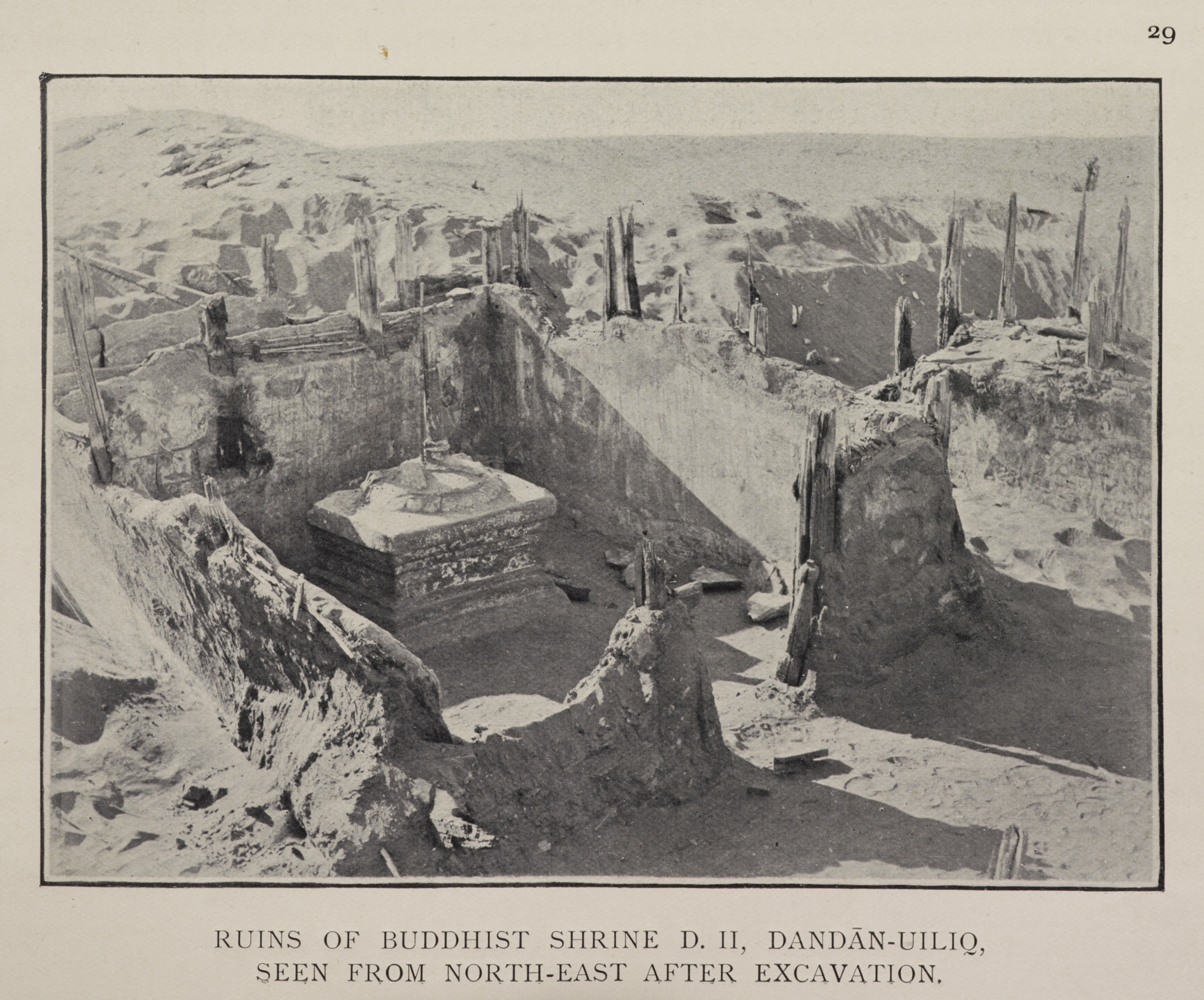 Ruins of Buddhist shrine D.II., Dandan-Uiliq, seen from northeast after excavation.